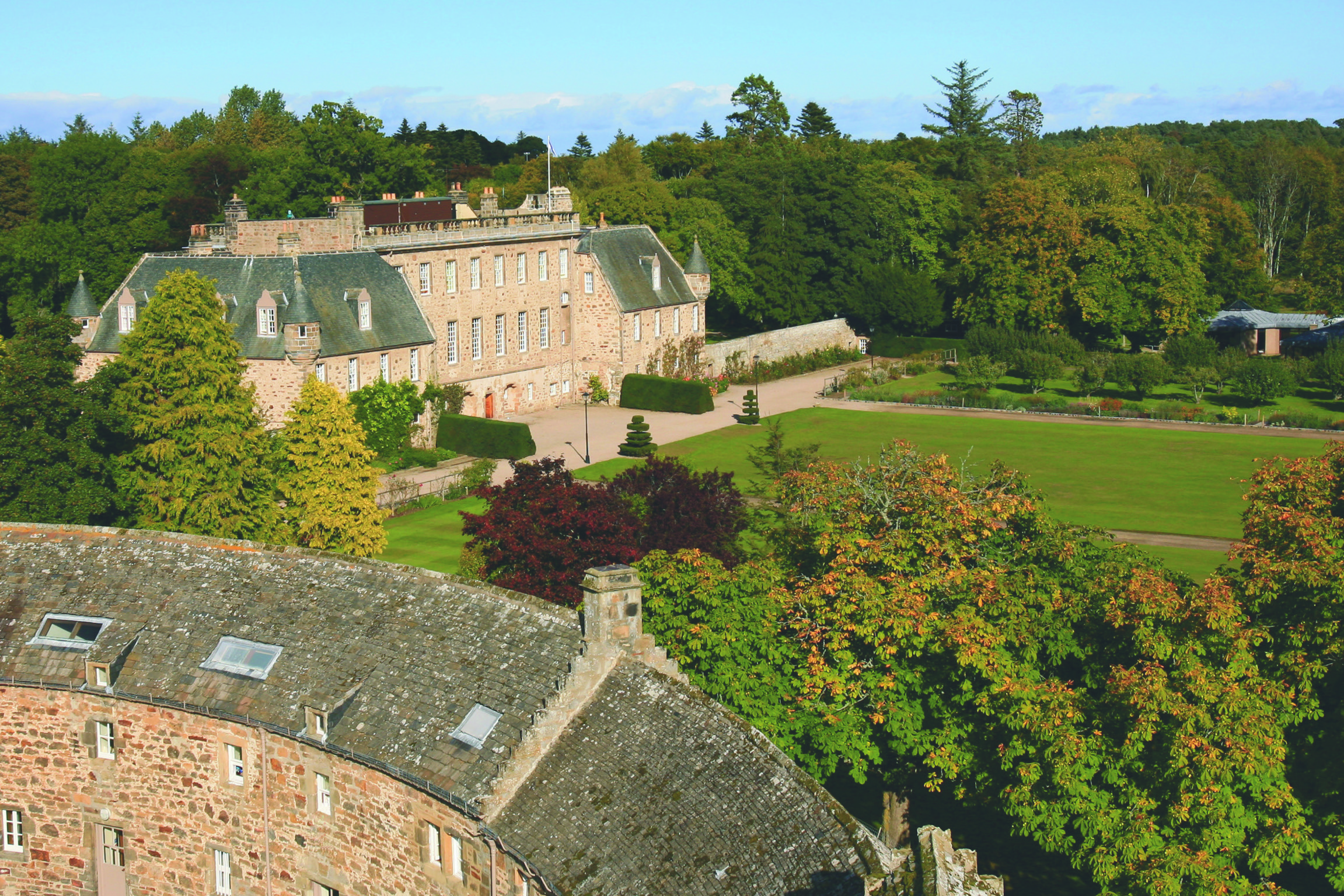 Round Square is a striking circular building which was one a stables and coach house but now houses the library and a boarding house.